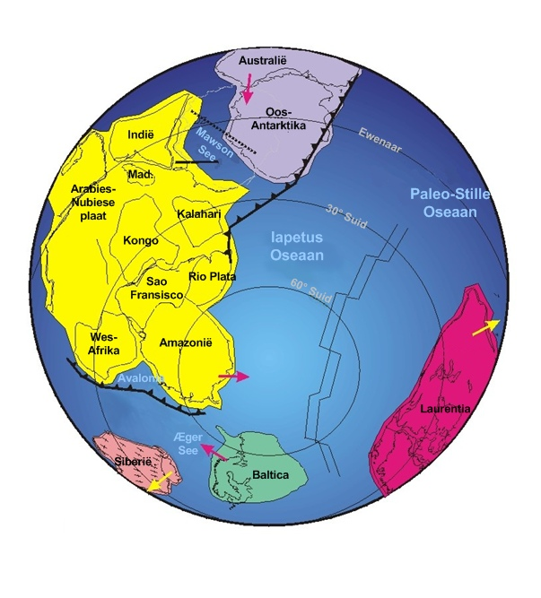 Ancient continents